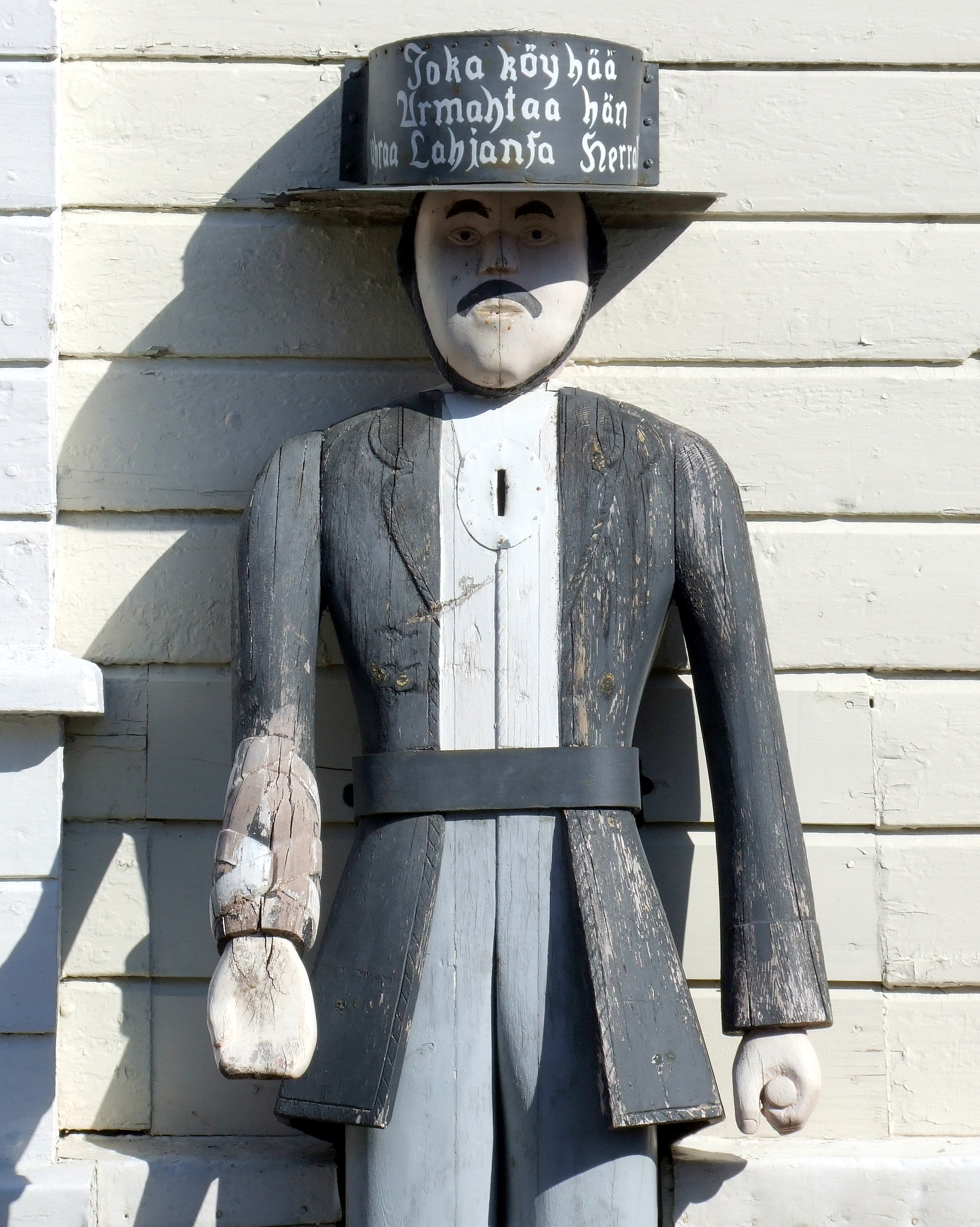 The wooden poorboy (vaivaisukko in Finnish) by the Belfry of Haukipudas Church.